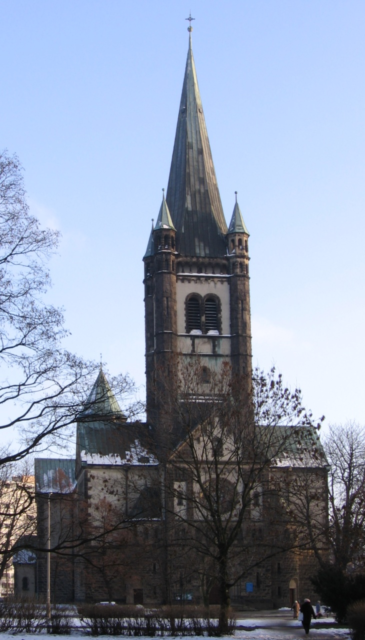 Wrocław, Poland Saint Charles Borromeo church (1913), Gajowicka/Krucza street. View from west (Gajowicka st.)